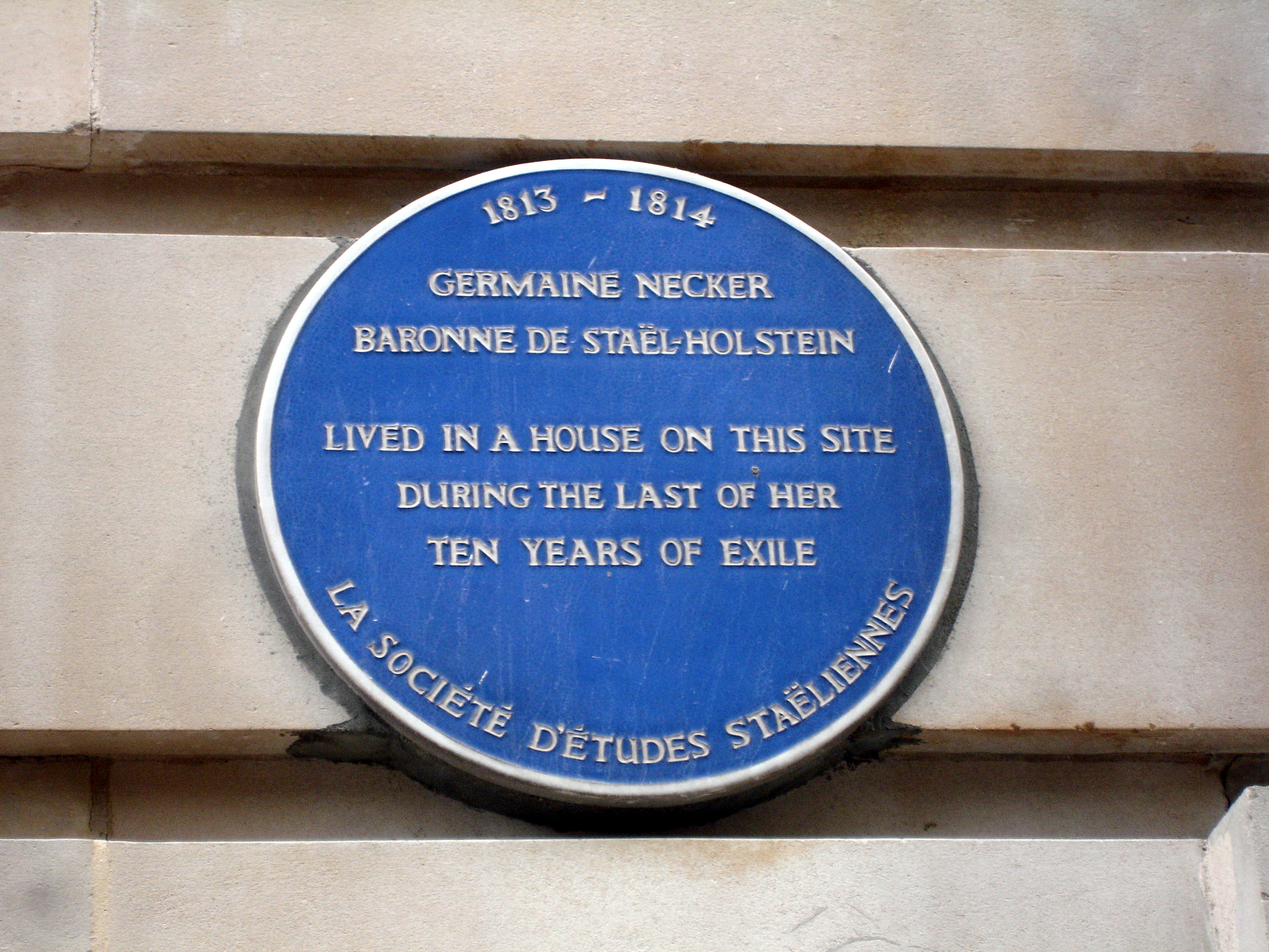 Germaine Necker plaque on Palladium House, 104 Argyll Street, Soho, London W1F 7LD